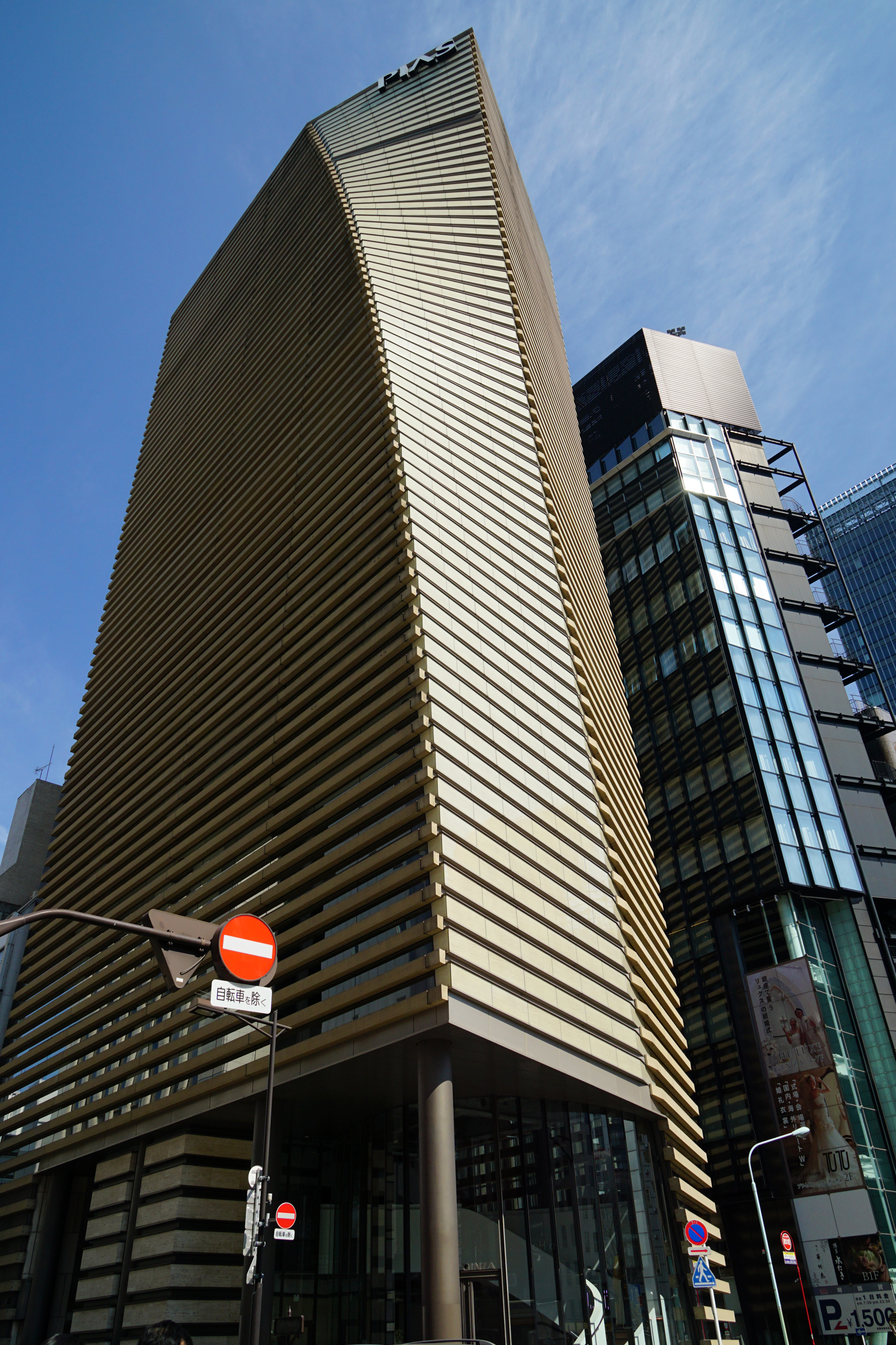 At Ginza in Tokyo, Japan